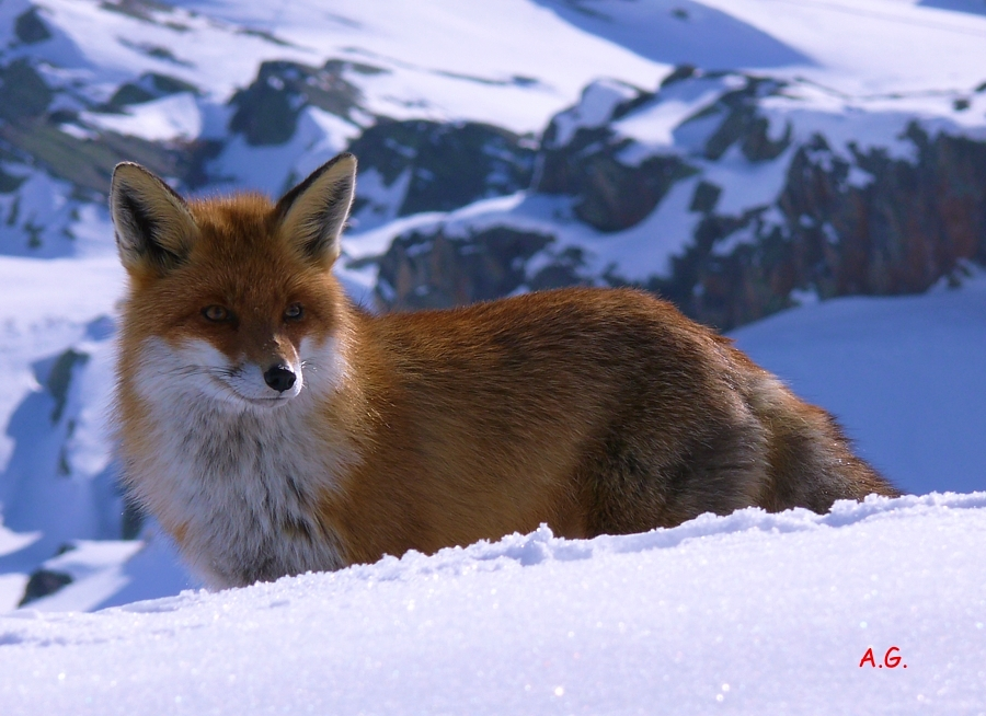 Volpe - Italy